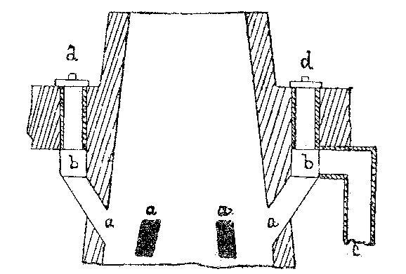 Technoloy used to capture blast furnace top gas. It was used in the first half of 19 century. The gases are taken under the blast furnace top (a), while they are still reacting with the charge. They are then collected in a circular pipe (b). The burden which are up to the openings close the top.